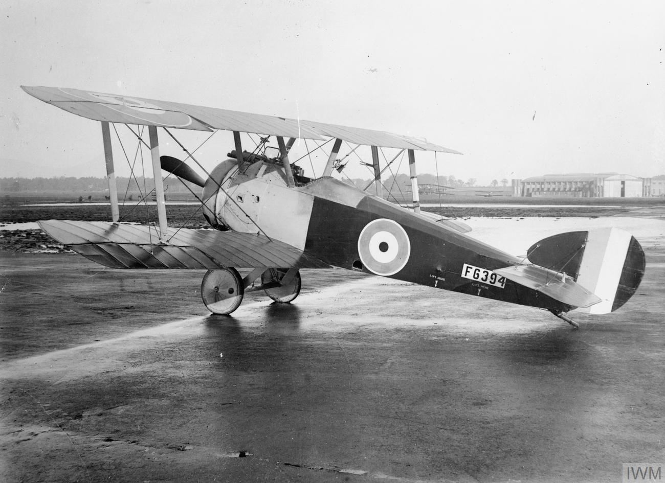 Insall a J Collection Sopwith F.1 Camel